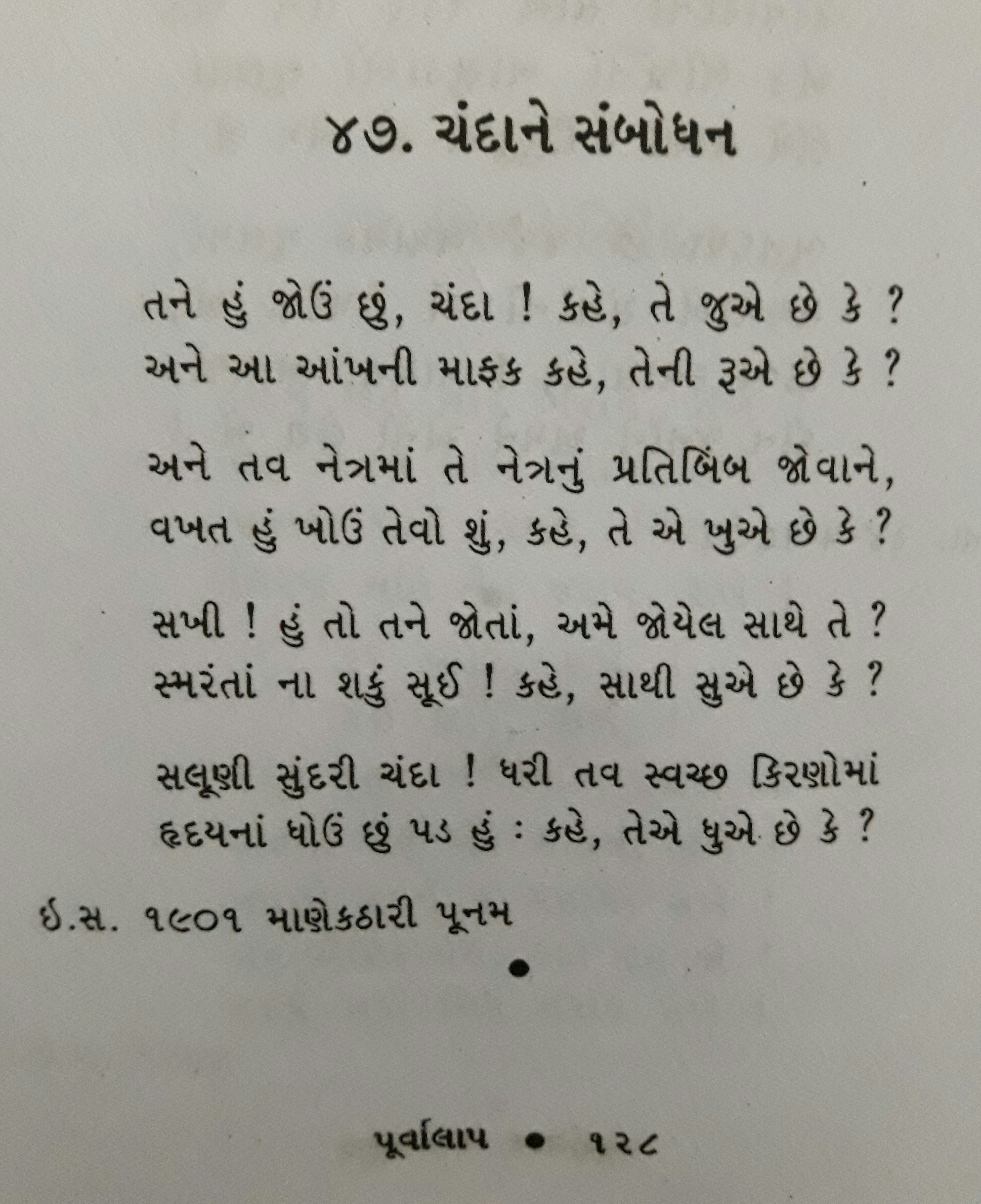 Kant's poem 'Tane Hu Jou Chhu Chand' written in 1901. Kant died in 1928 and therefore his works must be in Public domain in India.